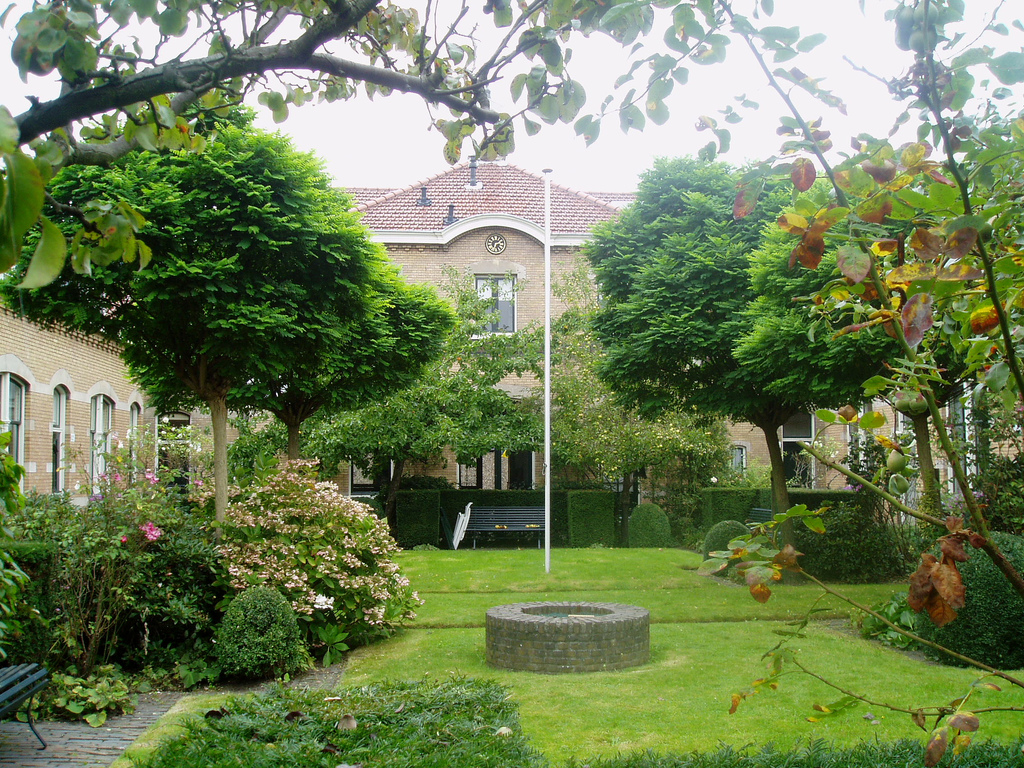 Zuiderhofje (Almhouse), Zuiderstraat 12, Haarlem, The Netherlands